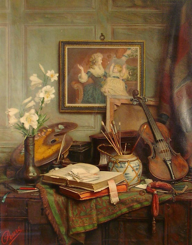 Oil painting by E G Handel Lucas, painted in 1907